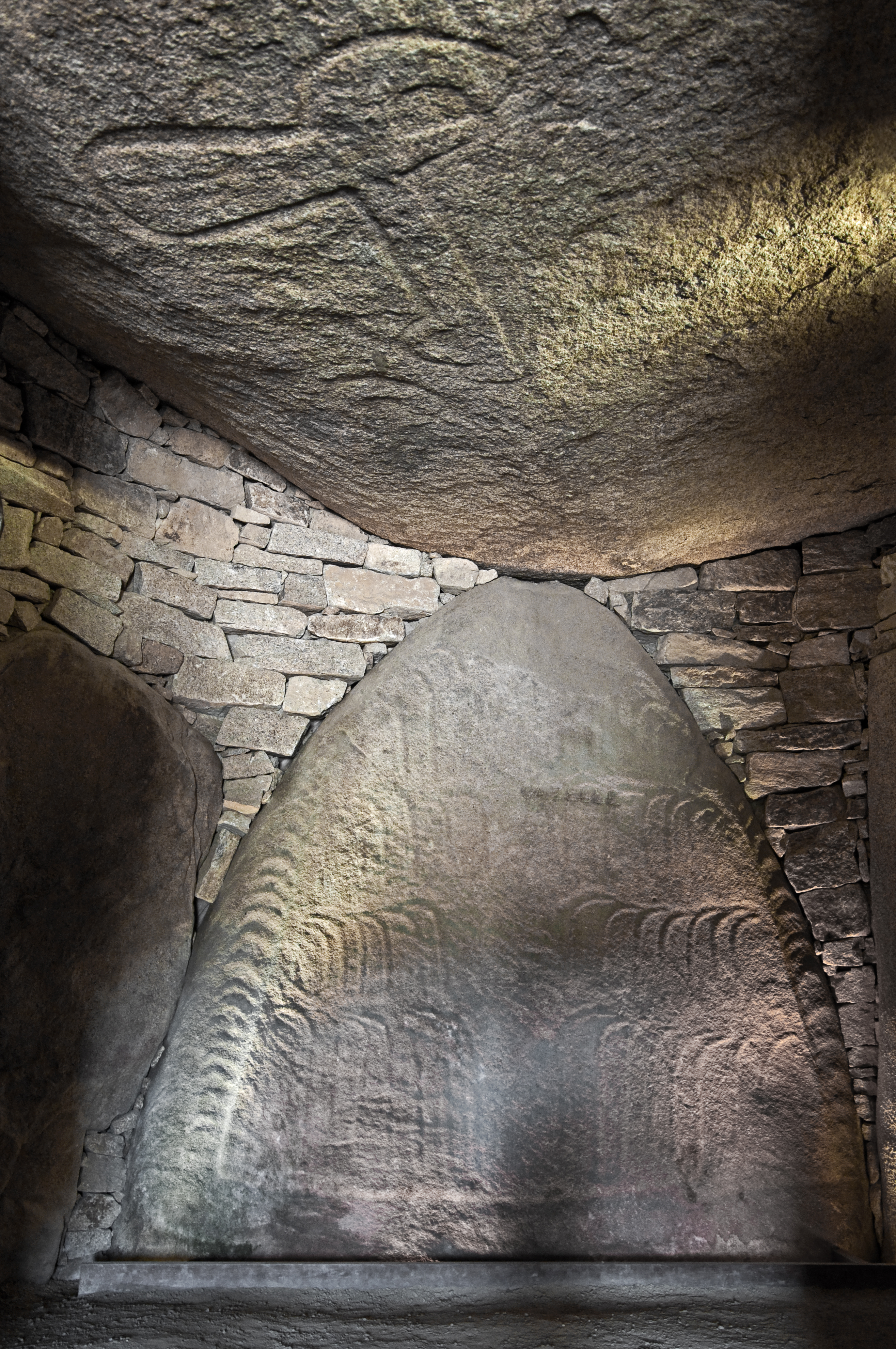 The 'Table des Marchand' dolmen in Locmariaquer (Morbihan, Brittany, France): inside view of the burial chamber, with the back stone and of the capstone, both engraved.